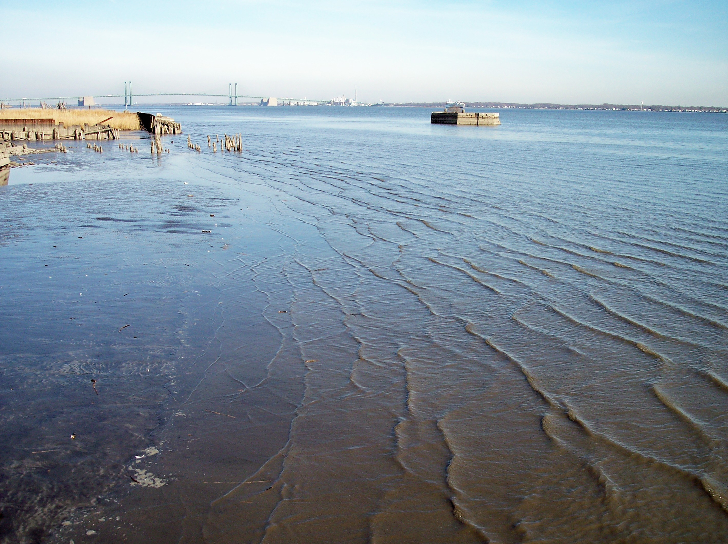 The lower Delaware River as viewed from New Castle, Delaware. The Delaware Memorial Bridge is visible in the distance.